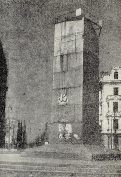 Monument of Aviator with emblem of Polish Underground State and Home Army - Armia Krajowa (AK). Symbols Polska Walczy (Fighting Poland) painted by Jan Gut and Jan Bytnar (pseudonym Rudy)- members of Grey Ranks - Szare Szeregi. Union of Lublin Square, Warsaw during German Nazi occupation of Poland.